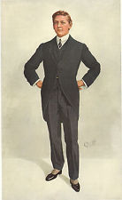 Caricature of Sir Charles Huntington. Caption read "Tubby"